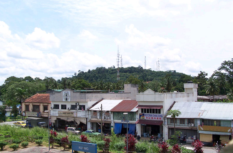 Kuang town, released under GFDL for my love of the town Below there is a railway signboard of the Kuang Komuter station